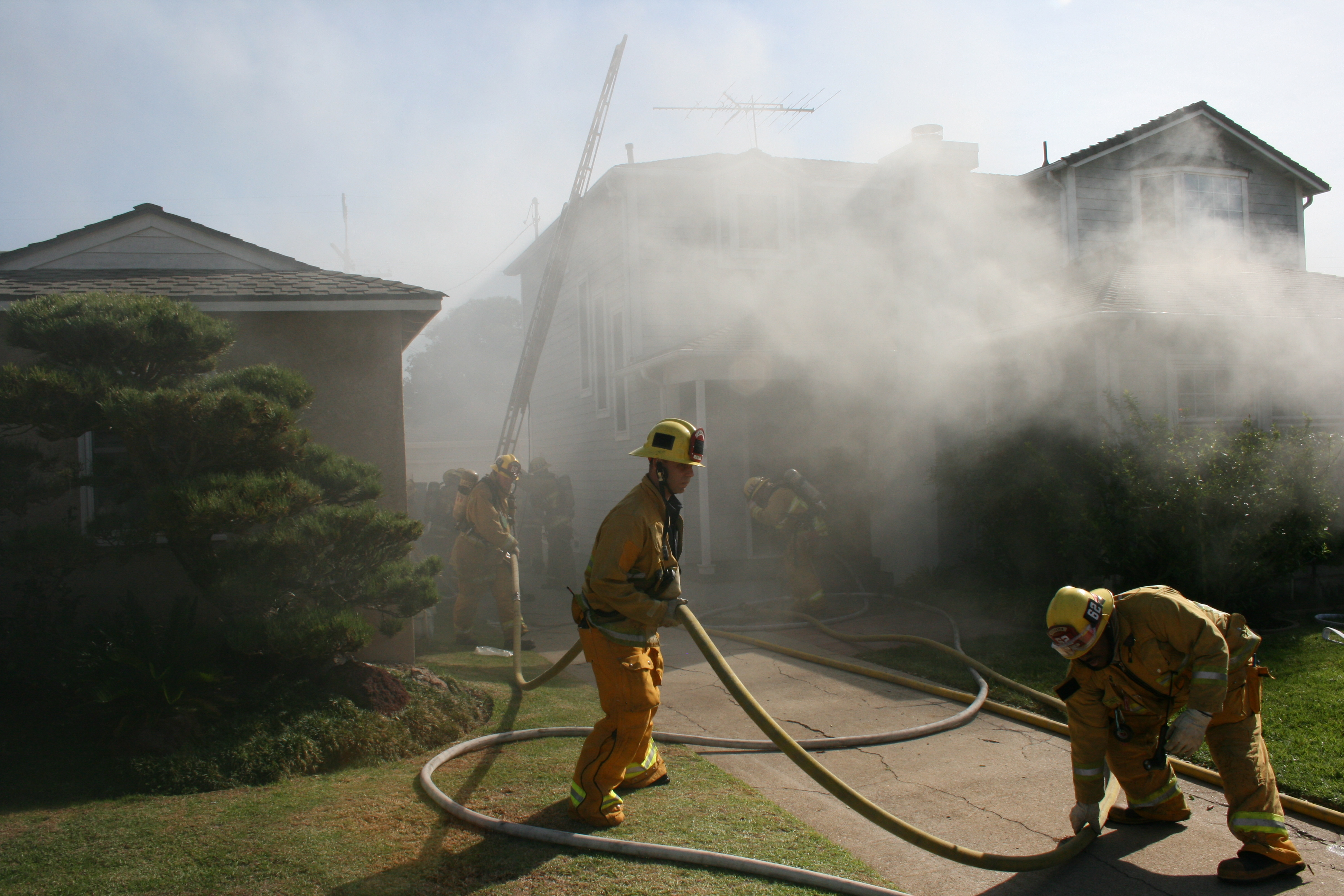 Los Angeles City Fire Department firefighters working on a house fire in Mar Vista, Westside Los Angeles.